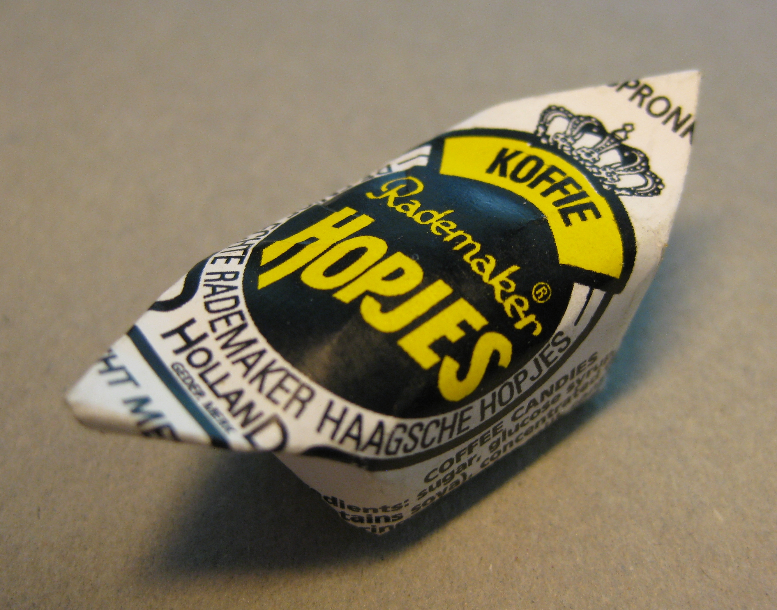 a "Hopje", a typical Dutch candy with a slight coffee and caramel flavour